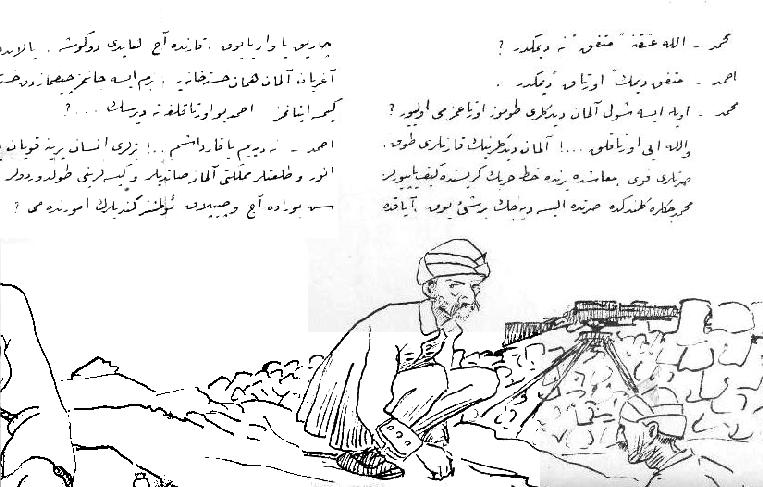 British Propaganda example produced by the British at the end of 1917 and tossed over the Turkish lines. The story in the propaganda sheet calls upon the average Mehmet to reflect upon their appalling conditions experienced in the Judaean Hills while on their campaign. The two characters are Mehmet and Ahmet, two of the most common Turkish names, like Bill and Jim. The conversation goes like this: Mehmet: In the name of Allah, what is the meaning of ally? Ahmet: Ally means partner. Mehmet: If this is so then this German pig is our so-called partner. What a partnership! These so called Germans allies are well fed, their clothes are dry, they are well paid and they are enjoying the war. But if you think of Mehmets, they don't have clothes, shoes, and are always hungry when going into the combat. The Germans go immediately to hospital after inventing an illness. On the other hand, unless we lose our lives, no body will believe that we are sick. So Ahmet what can you say about this partnership? Ahmet: What can I say? Enver and Talat treated them like men and sold our country to them so they could line their pockets. In contrast, they really couldn't care if we died naked and hungry. My God! How much longer do we need to endure everything? For God's sake my dear Mehmet, tell me. Mehmet: How long will we have to suffer? The way I see it we should stop fighting for German profits and join the English. Even though we are told the English are our enemies, they care for us a thousand times better than our lot. Please come! The left hand side of this pic is missing which should contain an image of a German officer stuffing himself with some wonderful food while two rather gaunt Mehmets look on at the feast while manning a Bergman Light Machinegun behind a sangar. This piece of propaganda appears to come from Palestine and more specifically in the Judaean Hills, the only place where sangars were employed along with the Bergman in this manner.